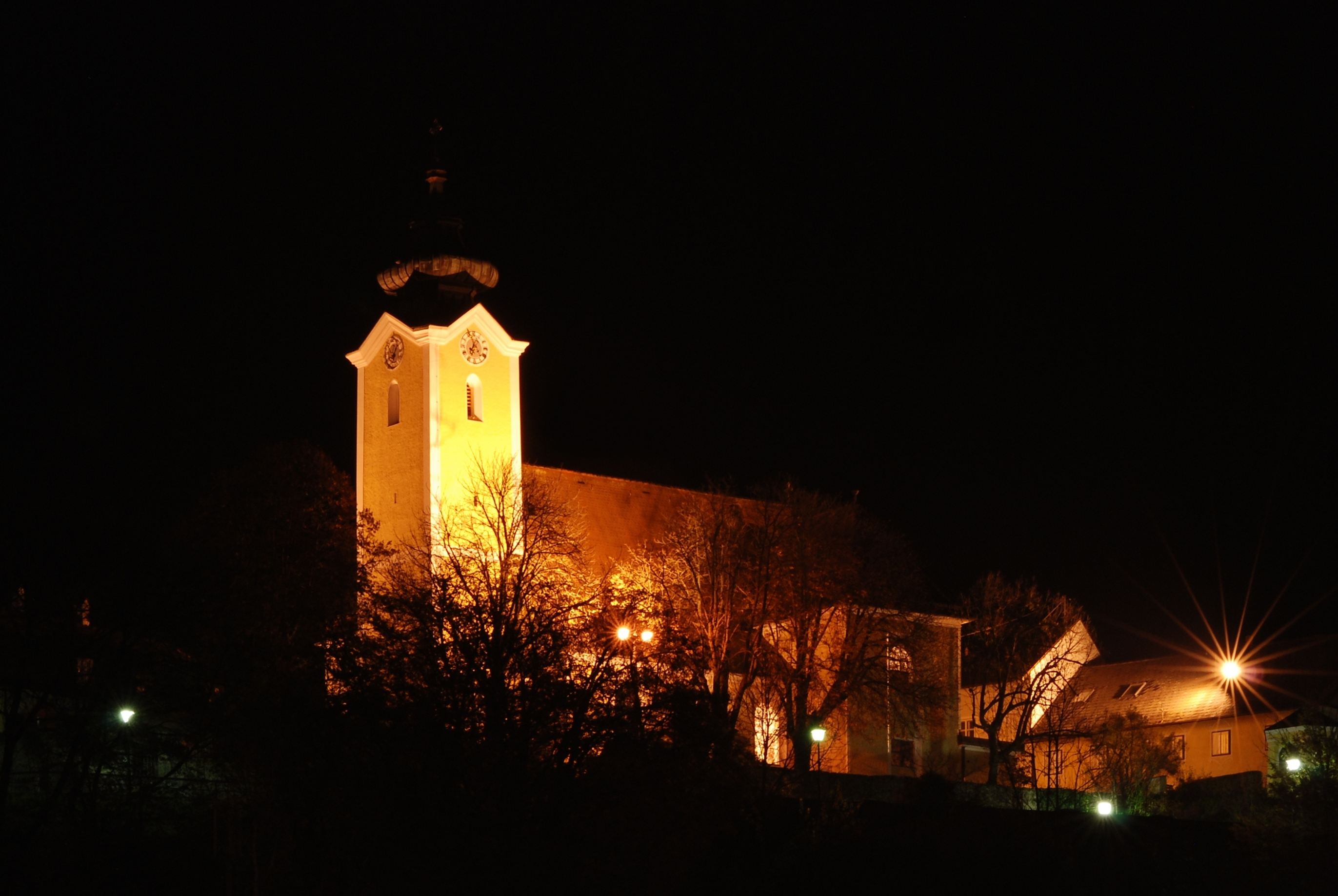 Catholic church St. Magdalena in Linz, Upper Austria